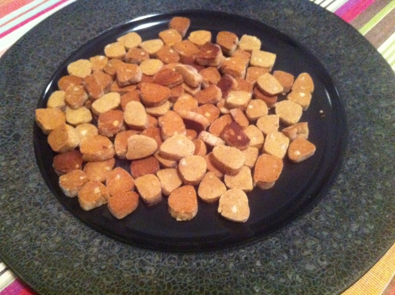 Peppernuts (cookies)